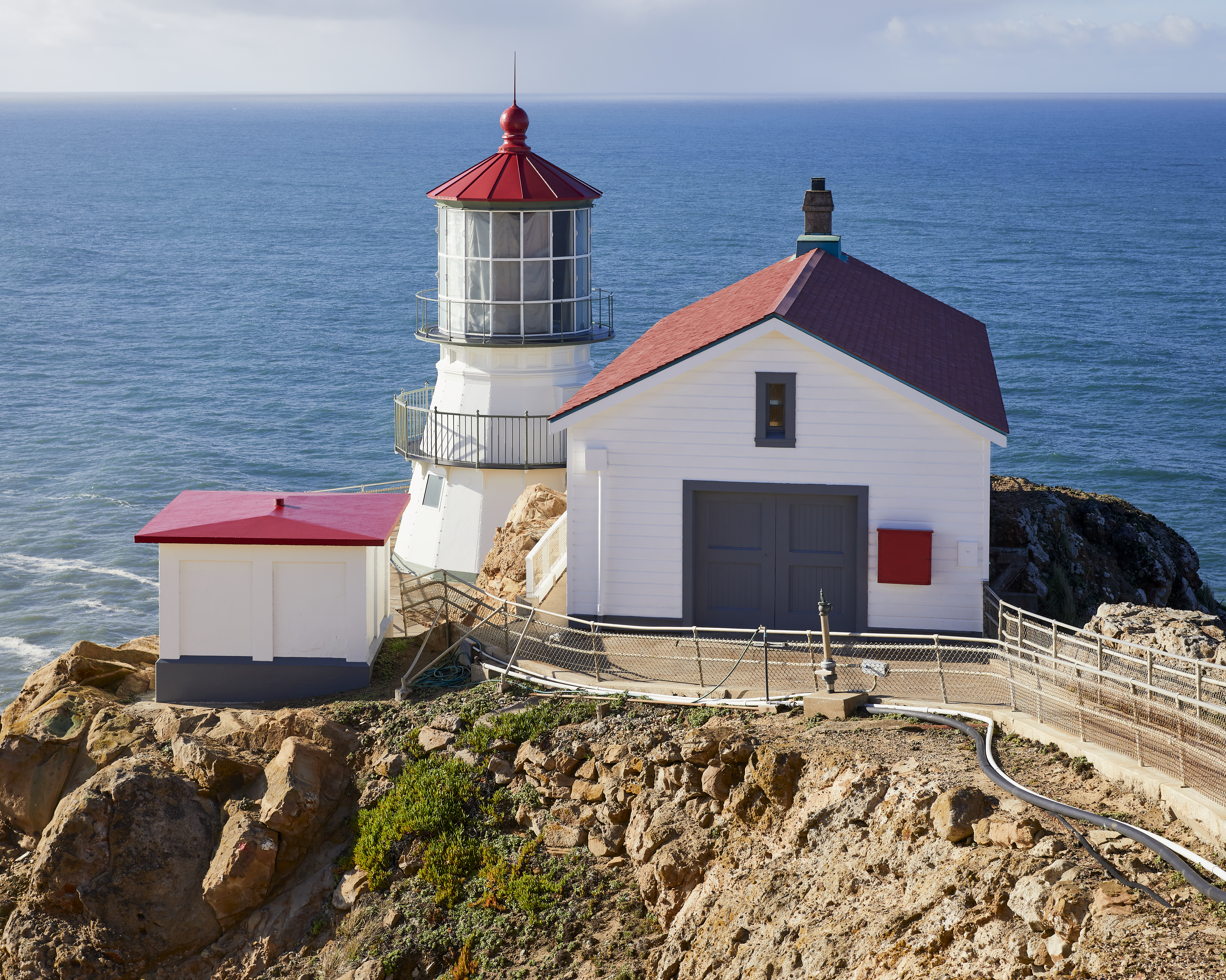 Point Reyes Lighthouse in the Gulf of the Farallones on Point Reyes in Point Reyes National Seashore. The lighthouse reopened in November 2019 after a 15-month restoration project. A making-of video is available on YouTube.